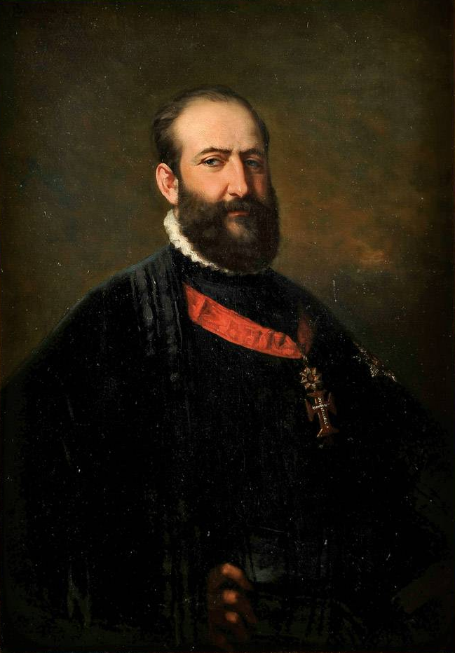 Henry Burnay (1838-1909), portuguese peer, industrialist and businessmen, wearing the insigna of the Order of Christ.